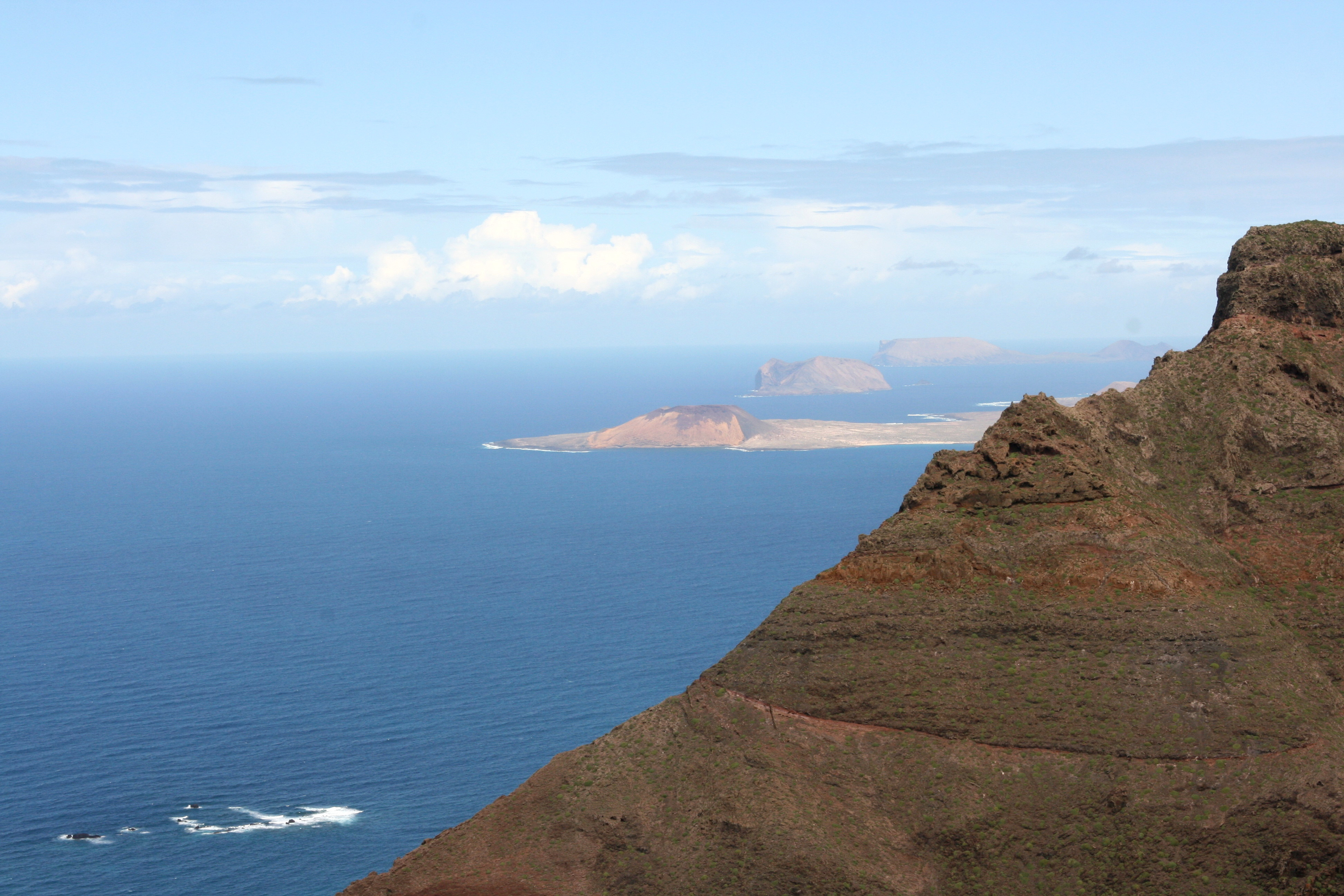 View from the Mirador de las Nieves in Teguise to the Risco de Famara in Lanzarote, Canary Islands.